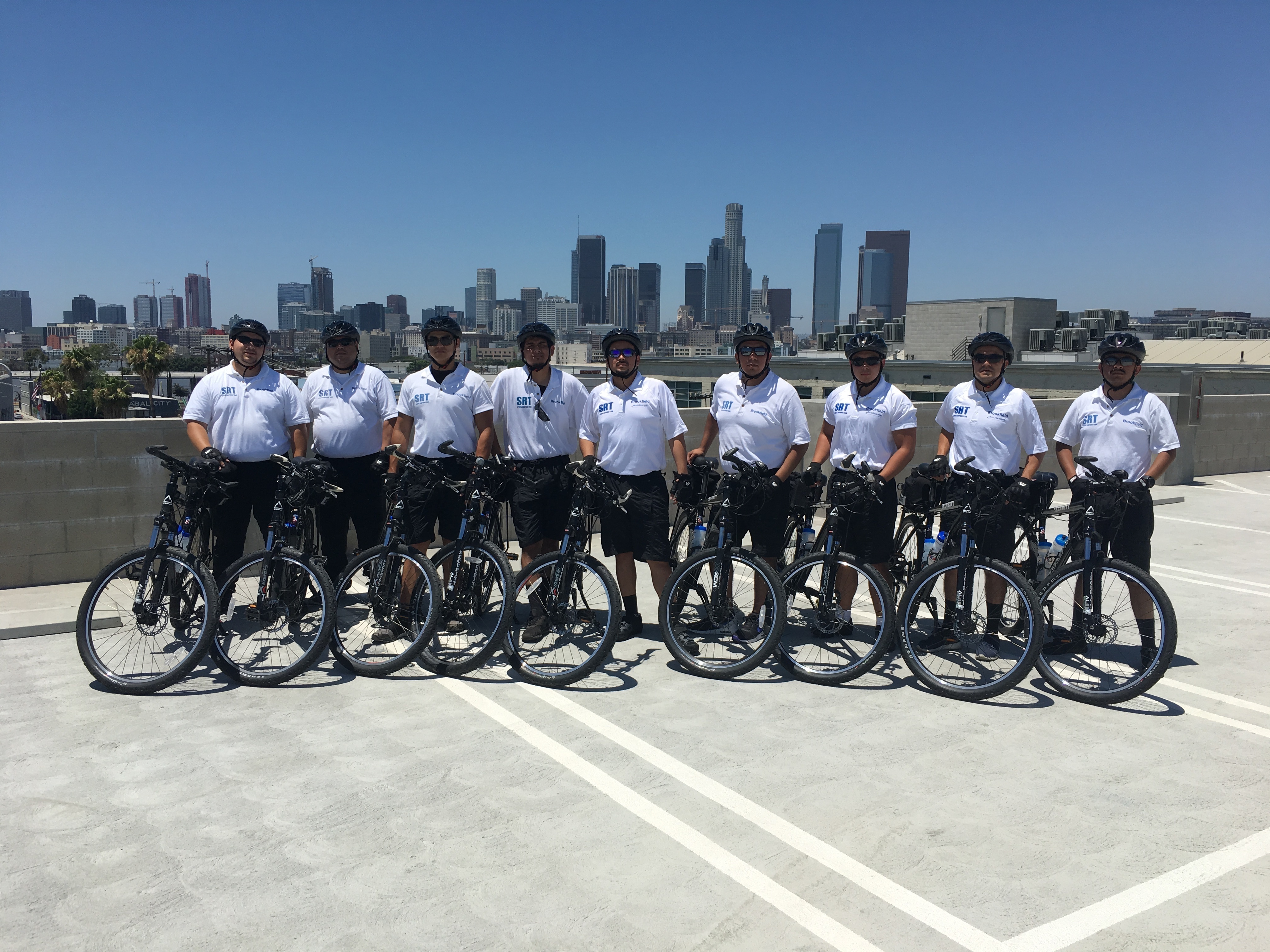 Officers in downtown Los Angeles during a bike patrol training course. Officers engage in a one day refresher to a 40 hour basic class were they learn safety and engagement protocols utilizing advanced patrol skills.